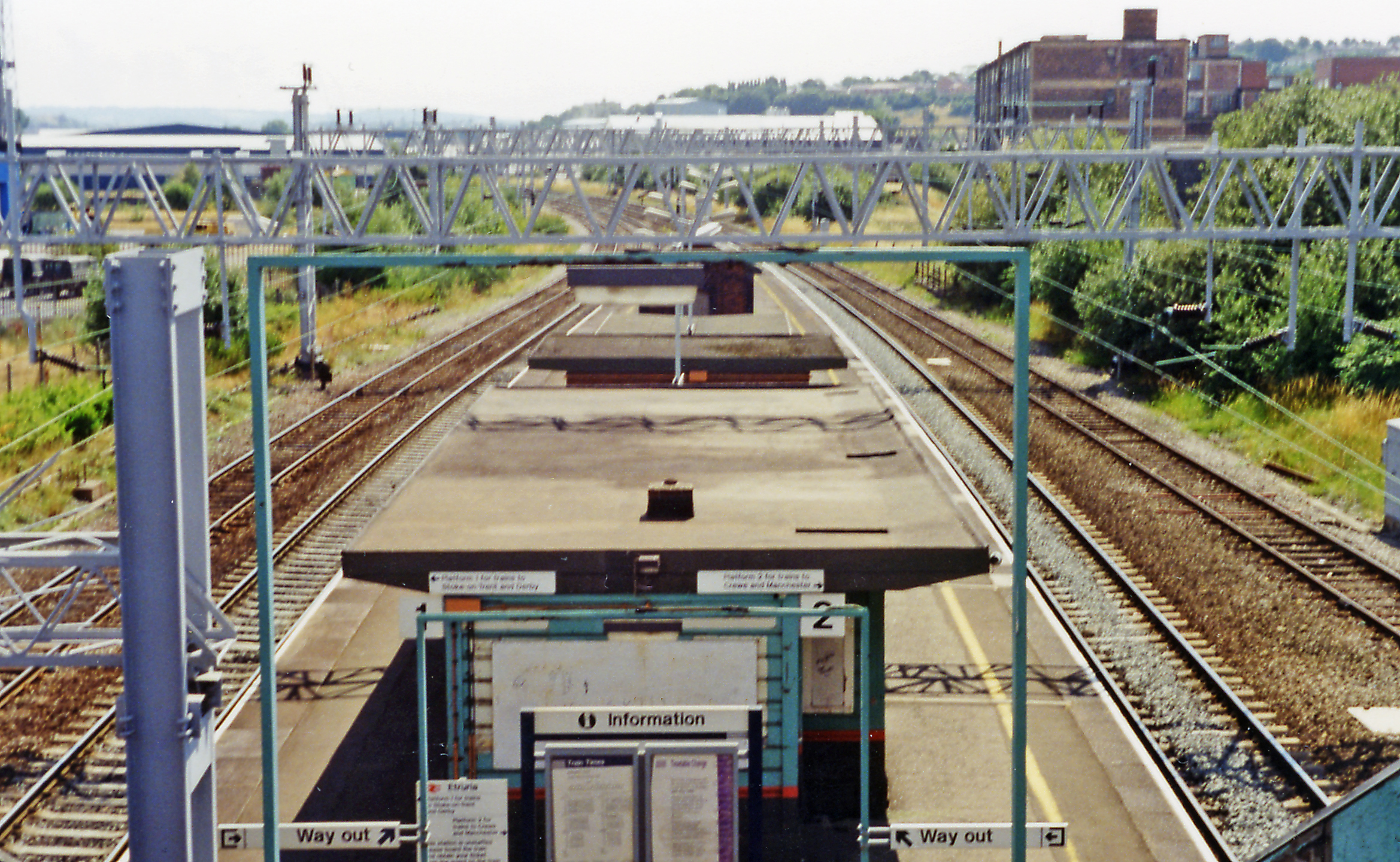 Etruria station, 1995. View SE from A53 bridge, towards Stoke-on-Trent: ex-North Stafford Railway main lines northward from Stoke, to Kidsgrove, Crewe, Macclesfield etc. During the recent upgrading of the WCML, the station was closed temporarily in 5/03, then permanently from 1/10/05.